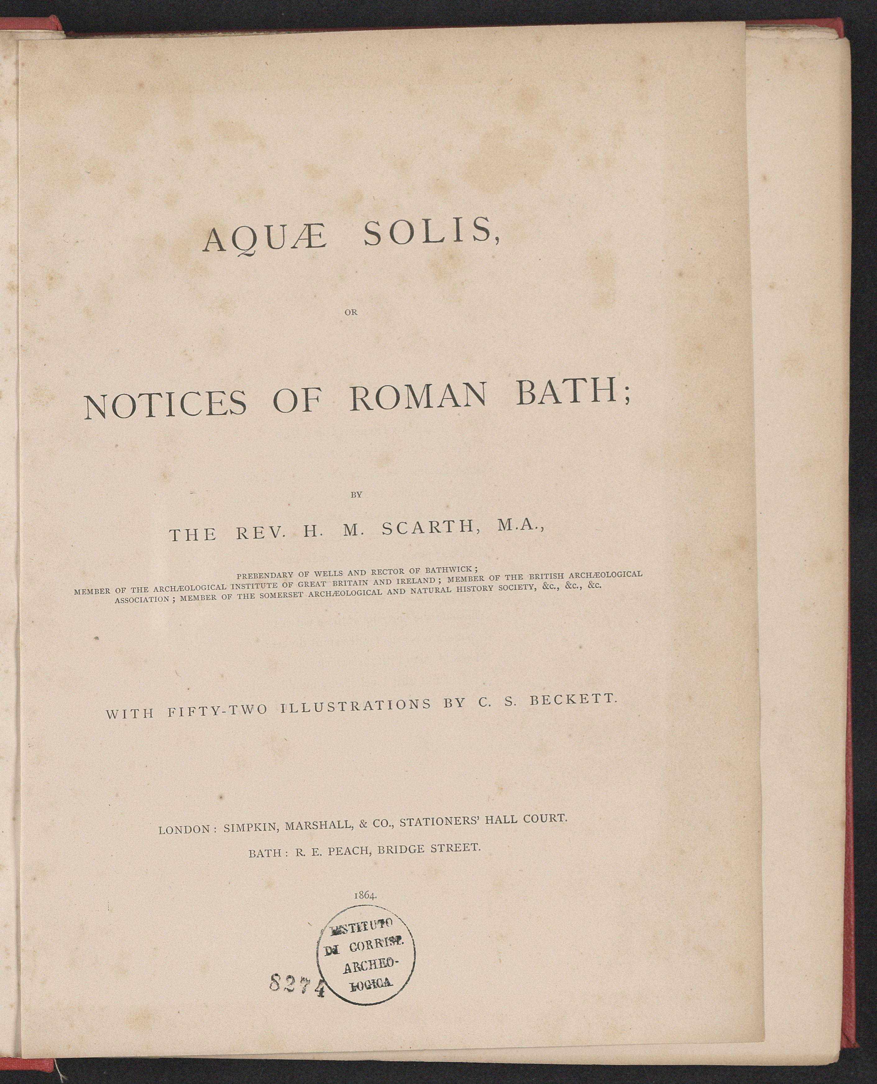 Aquae Solis by Rev Preb.Harry Scarth of Wrington